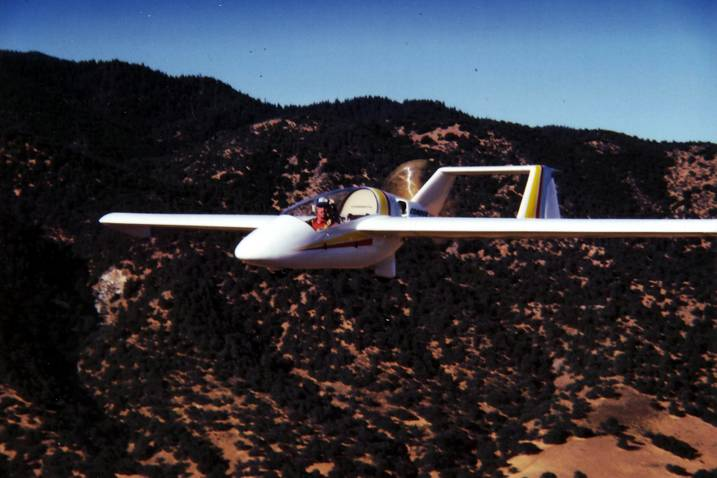 Aircraft Designs, Inc Condor self-launching aircraft in flight